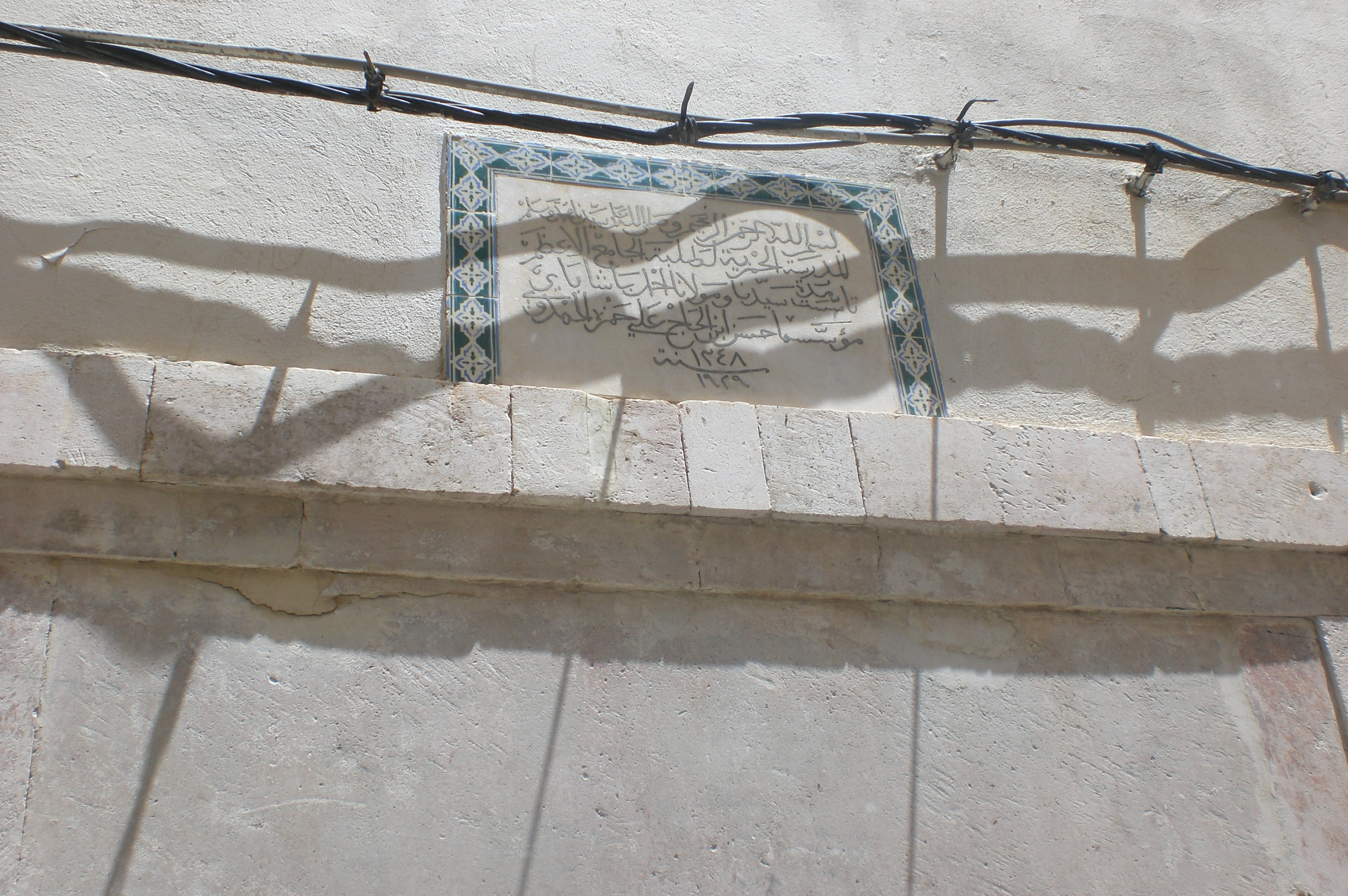 The inscription of Hamzia Medersa of Tunis